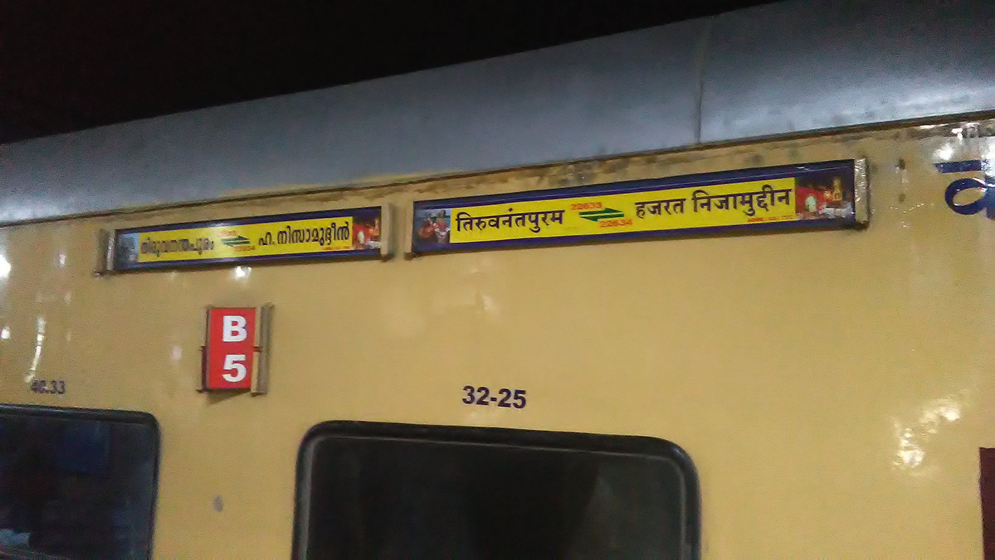 Trainboard of Thiruvananthapuram Hazrat Nizamuddin Express